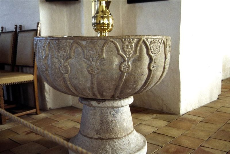 Sanderum Kirke from apr.1100